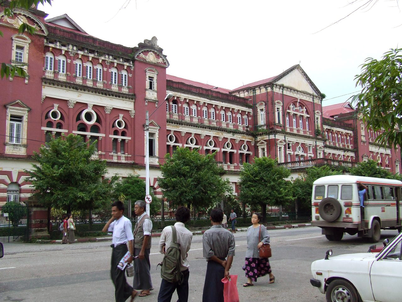 Yangon, Myanmar